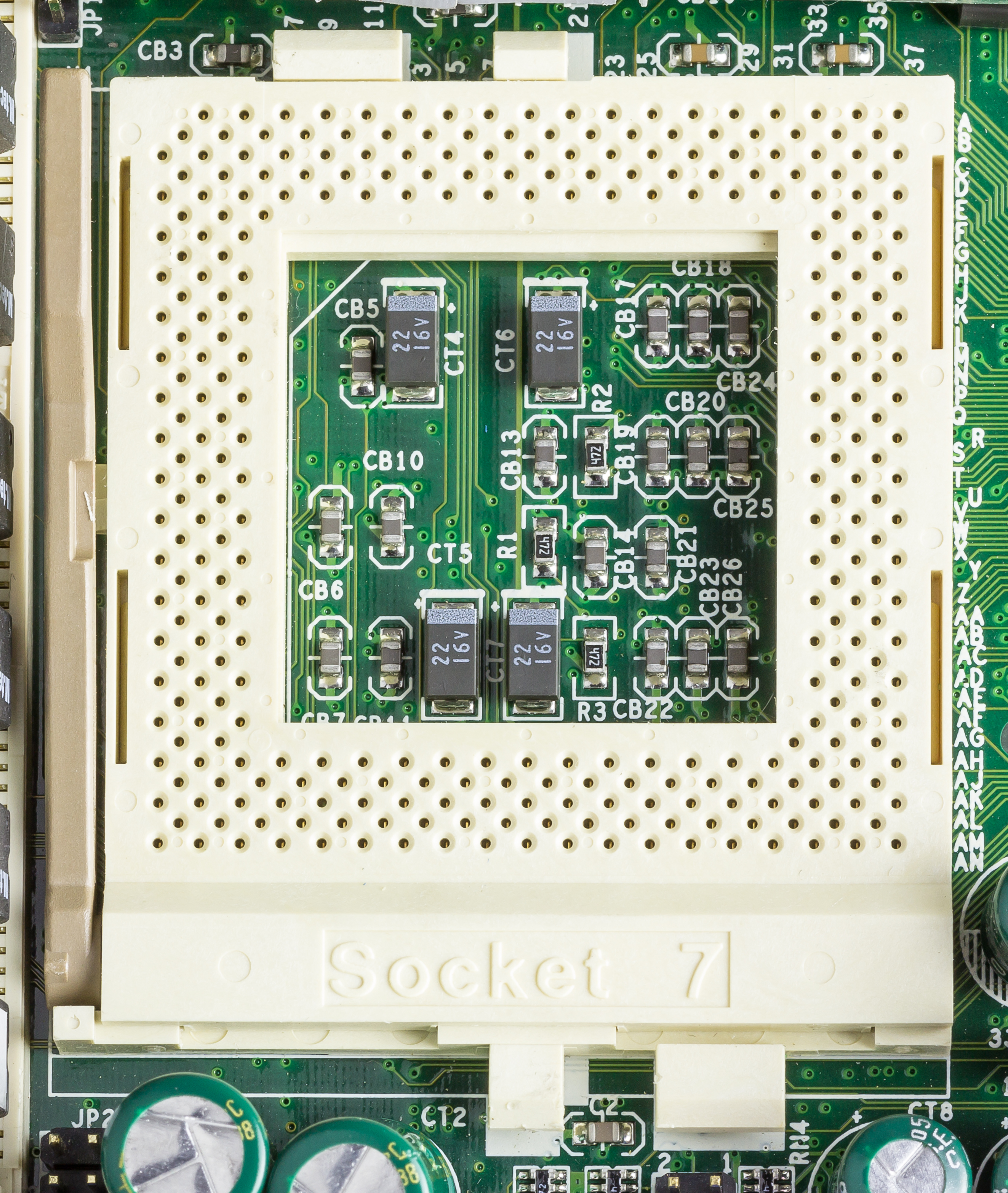 ROCKY-518HV - Socket 7